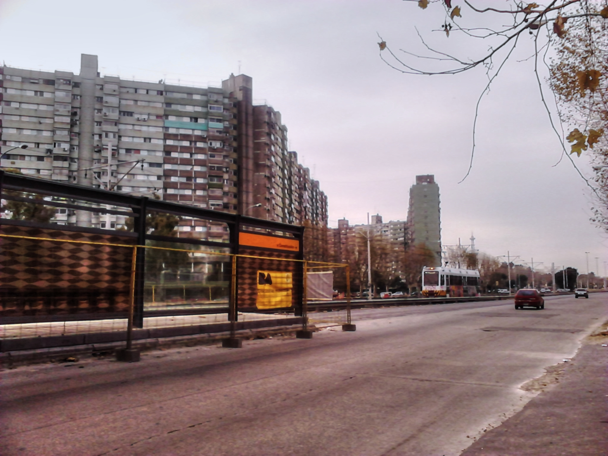 A Premetro train running near a Metrobus station under construction.